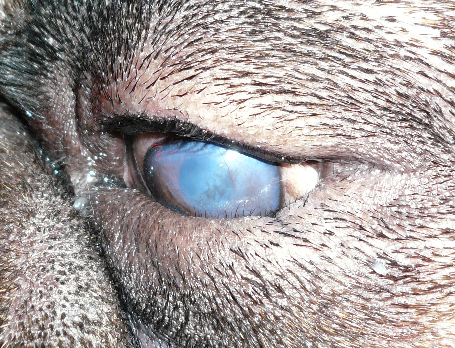 Lower lid entropion in a three year old Bullmastiff. The upper lid is normal. Due to chronic irritation, the cornea is scarred and is vascularized.